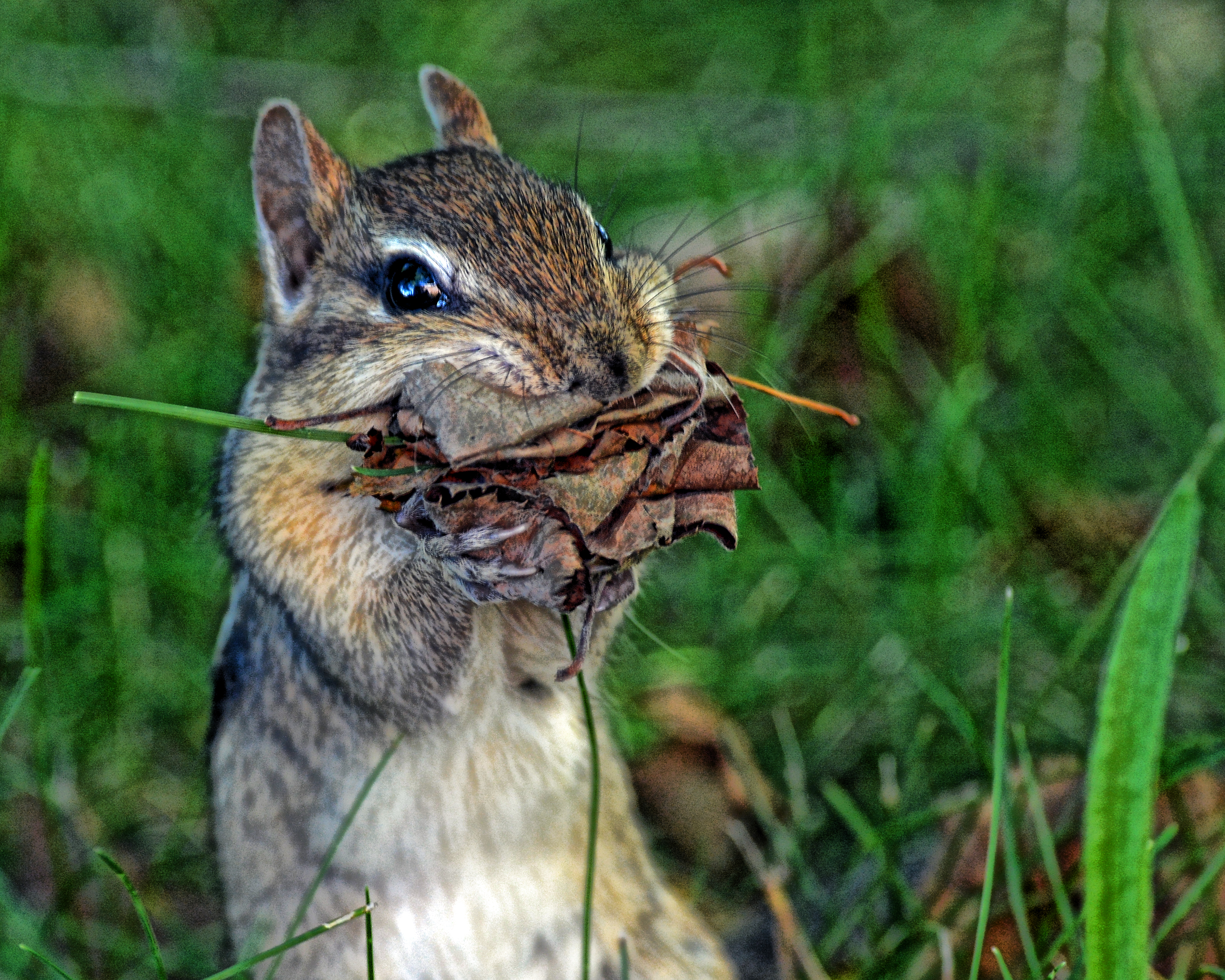 1st Place Wildlife Chipmunk - Julie Christiansen